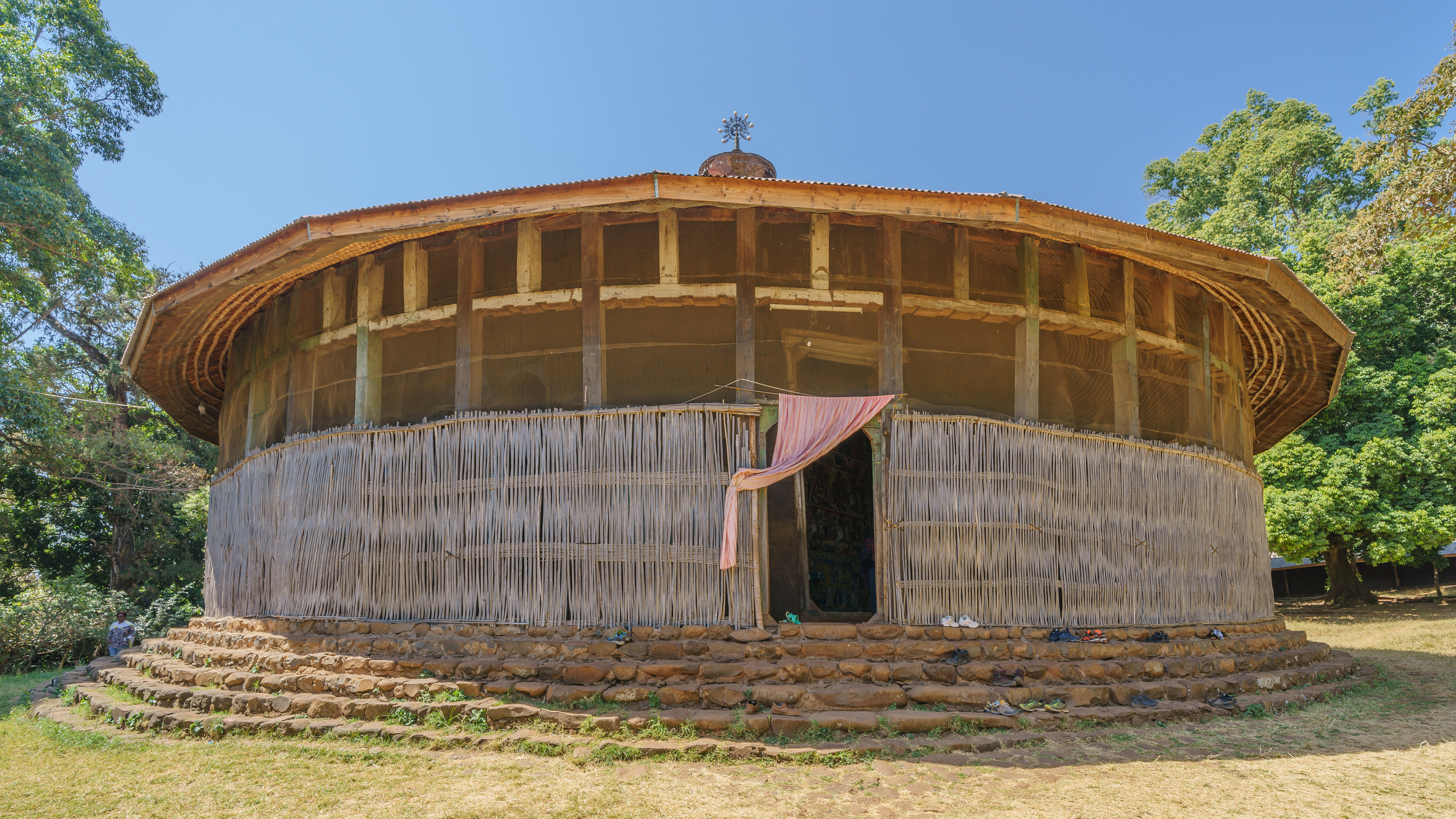 Ura Kidane Mihret Monastery – Lake Tana near Bahir Dar, Ethiopia